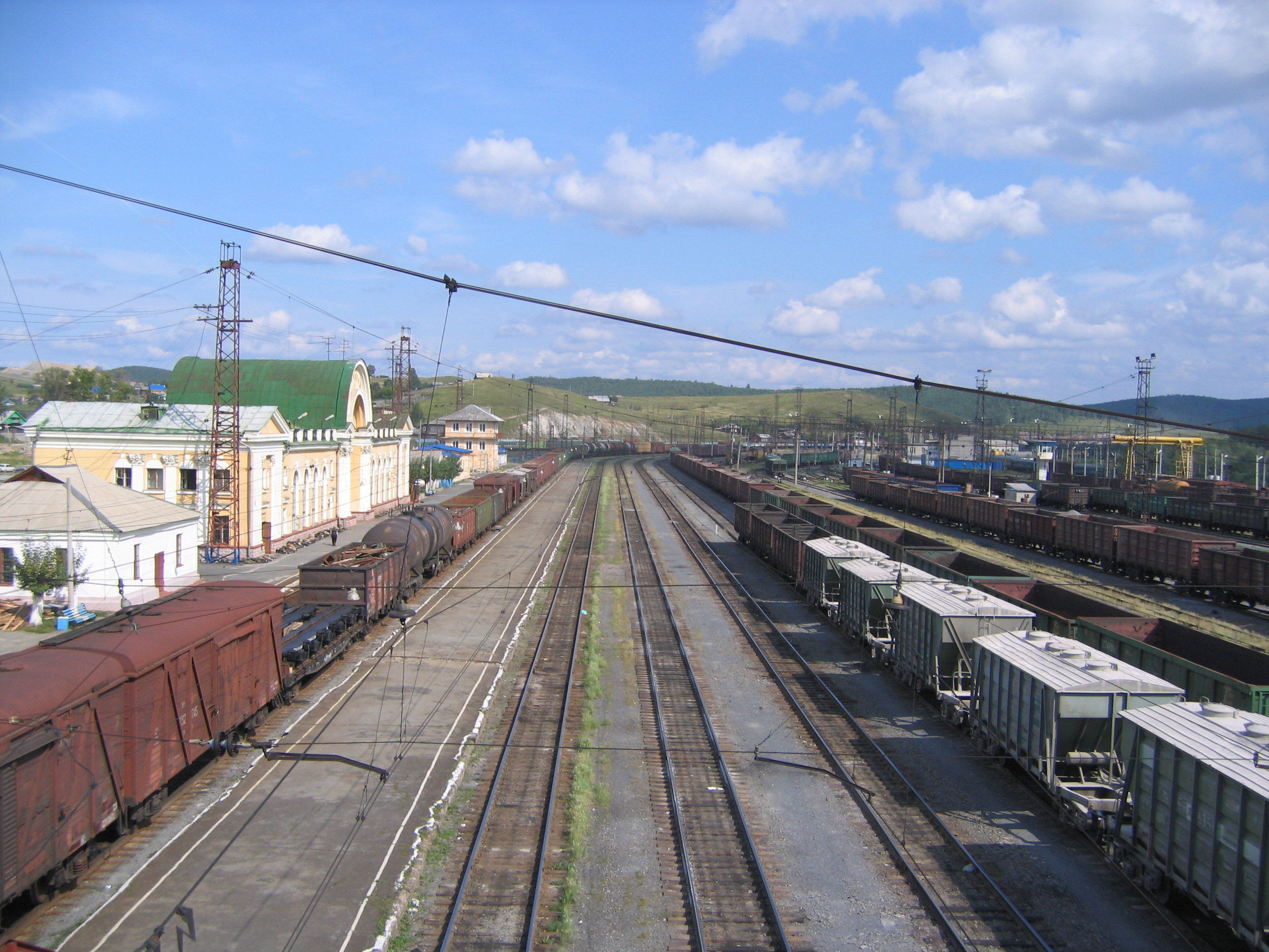 Berdyaush railway station, Chelyabinsk region, Russia